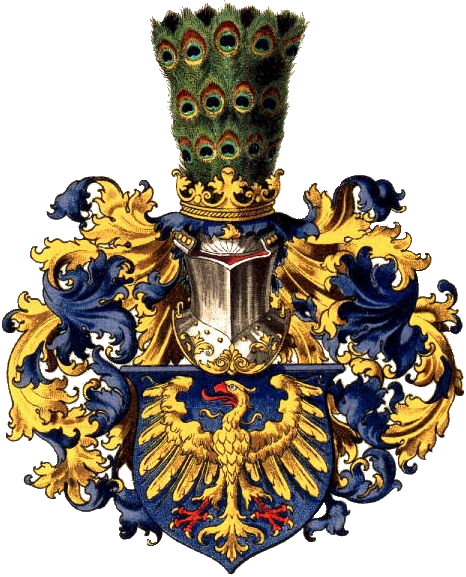 Historical coat of arms of Upper Silesia (Oberschlesien). The region is now in Poland and there exists the voivodship of Silesia, but it has different borders.